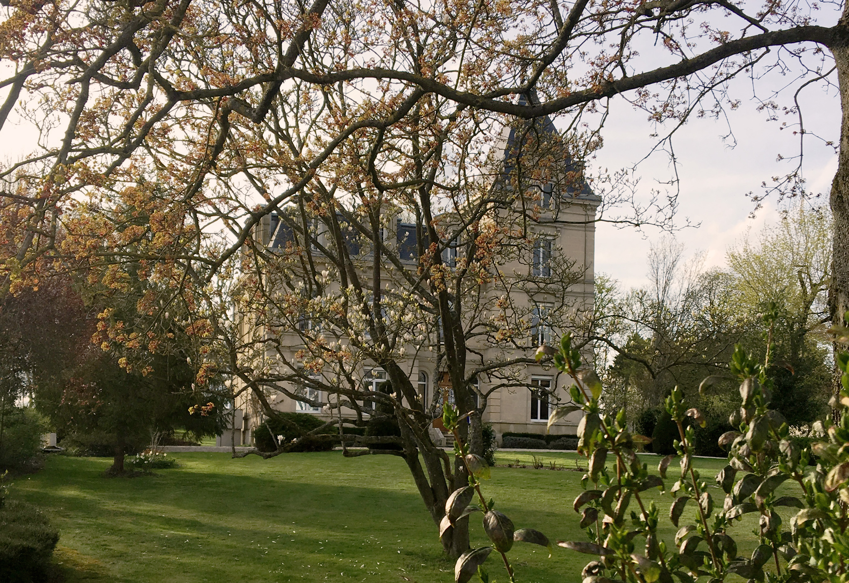 Château de Liverseau, Laversine